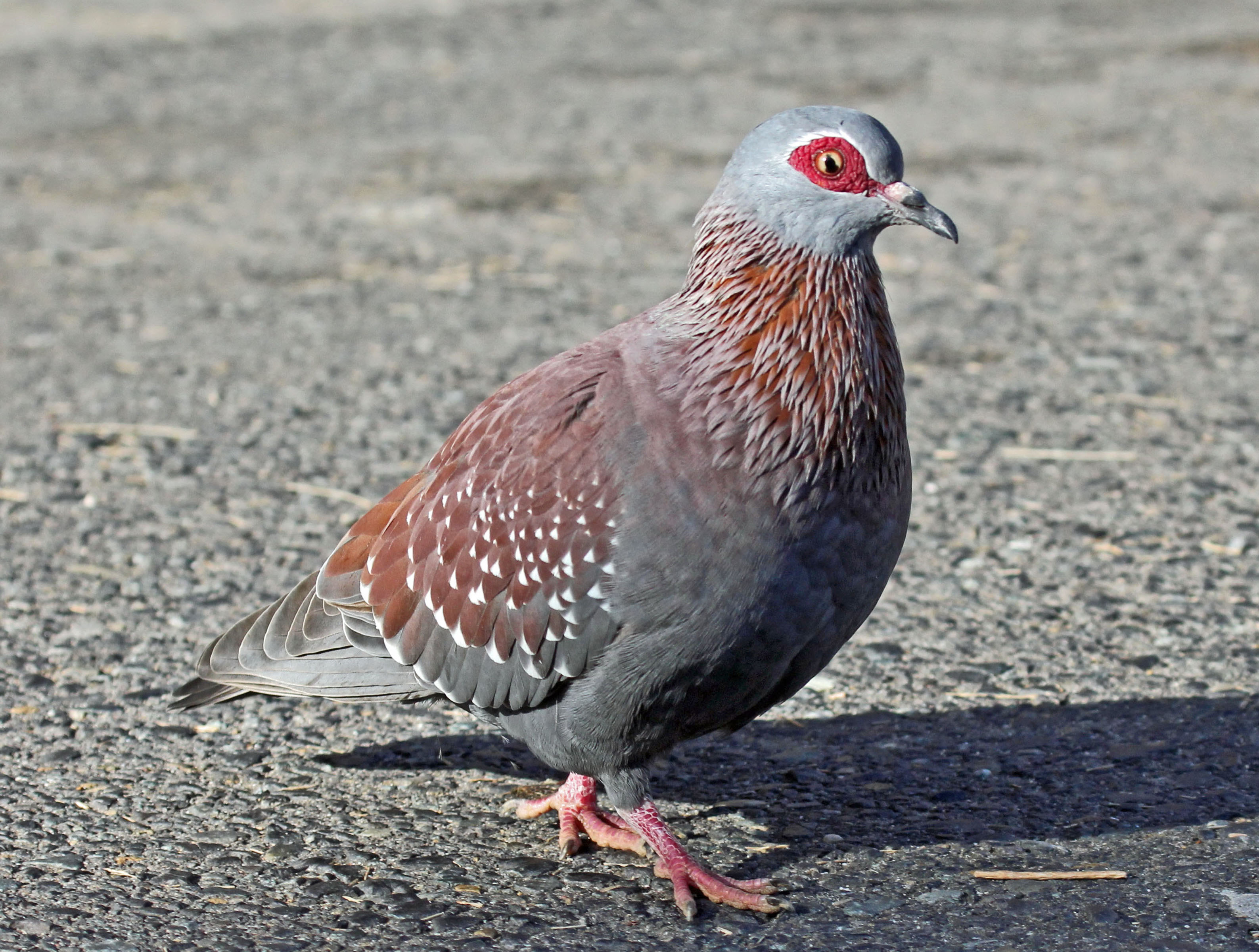 Speckled Pigeon (Columba guinea) at Cape Town, South Africa